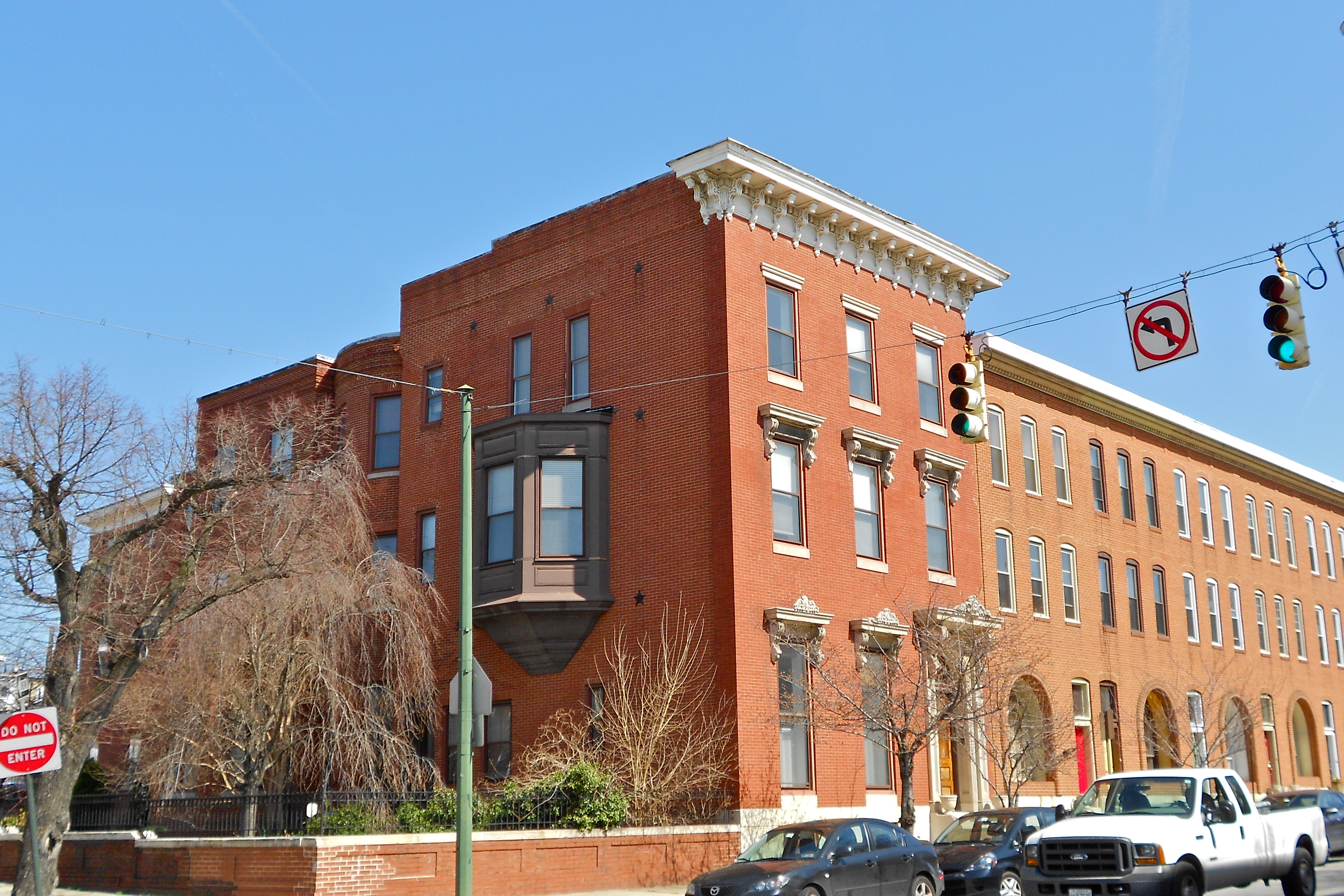 Bankard-Gunther Mansion on the NRHP since August 6, 1980 at 2102 E. Baltimore Street i southeast Baltimore.